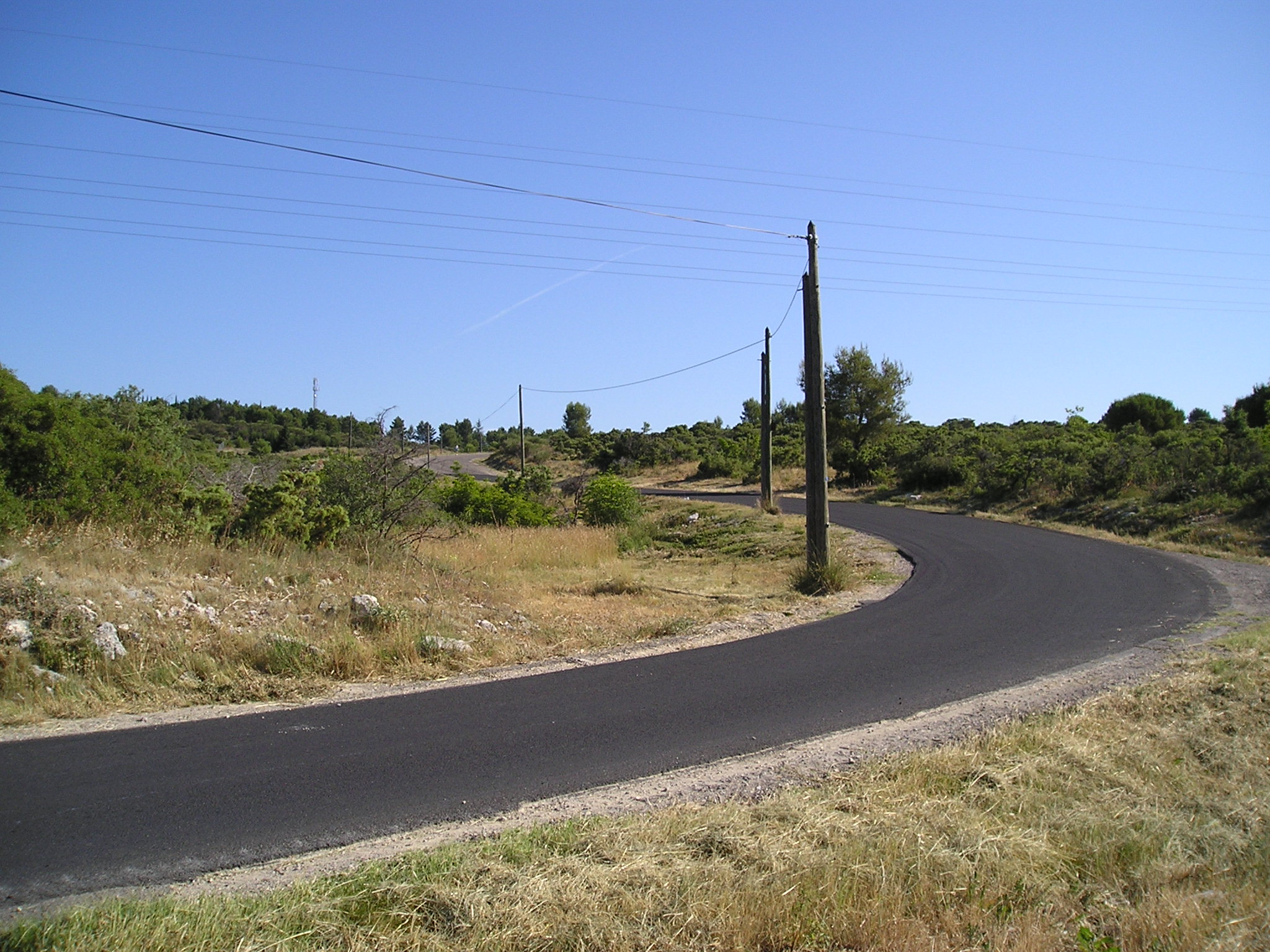 Hérault, France: road D102 at its northern entry in the Quatre-Pilas plain. At the top, the bridge over the A750 autoroute. The road limits Montarnaud (left, west) and Saint-Georges-d'Orques (right, east). Note: road of the Tour de France 2009 4th step from Bel-Air at the top to Les Quatre-Pilas on the left. The final curb on the foreground was a high difficulty for some teams (like BBox Bouygues Telecom and Skil-Shimano, and is where Piet Rooijakkers was injured.